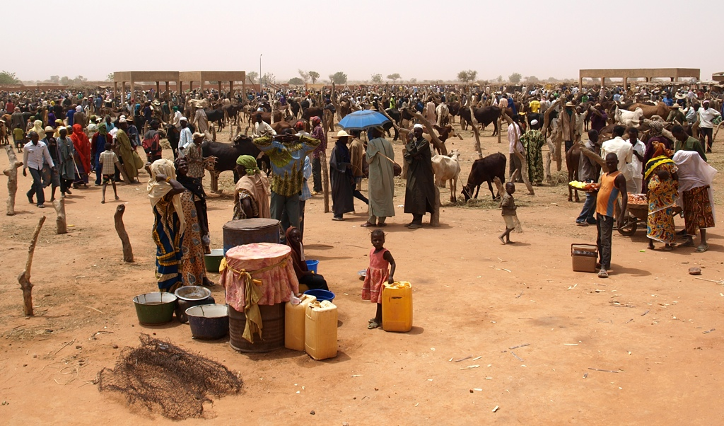 A scene from one of the biggest cattle markets near the city of Dosso in Niger, West Africa. From my website at